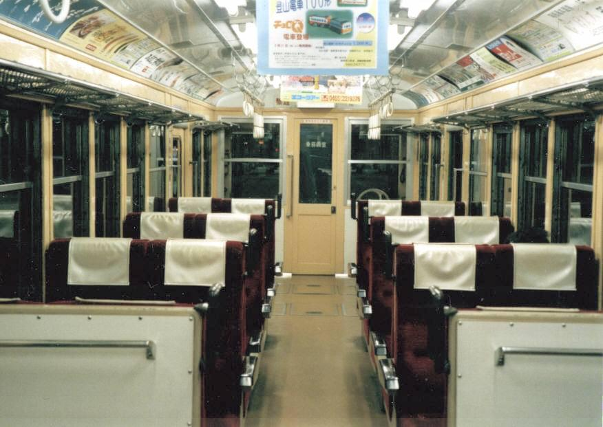 Inside of Hakone Tozan Railway,type Moha-2 箱根登山鉄道モハ2形電車